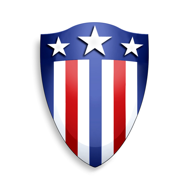 Photoshop illustration representing Captain America's shield, as depicted in Captain America Comics #1 (March 1941).